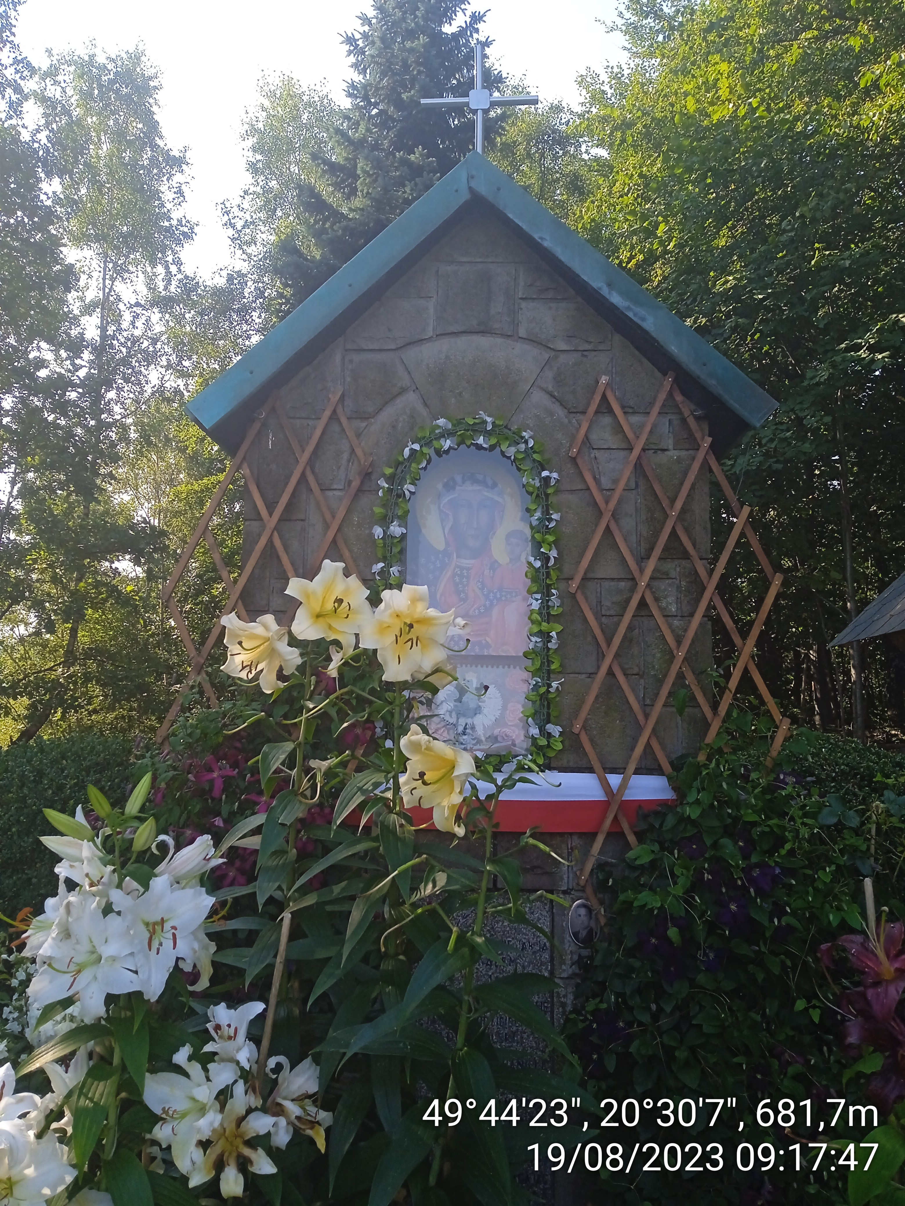 Shrine & Commemoration of Polish Home Army built in 1985 on Cuprówka hill (background: hills: Jaworz & Sałasz Wschodni) of Island Beskids, Founded by: LCP/PFC of Polish Home Army - Michał "Mira" Rogalski. Photo&Subtitle with OpenCamera - date in CET